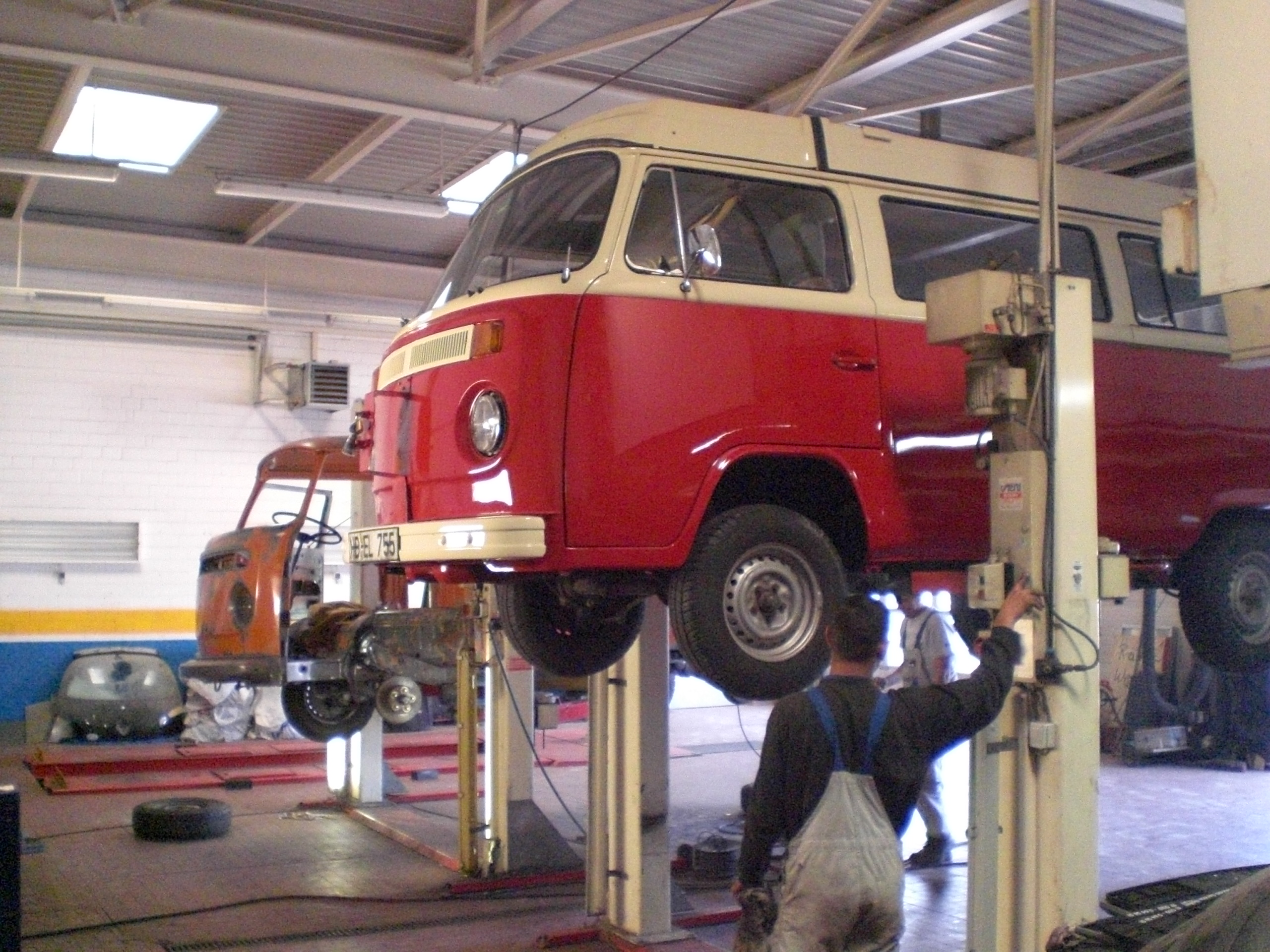 car lift